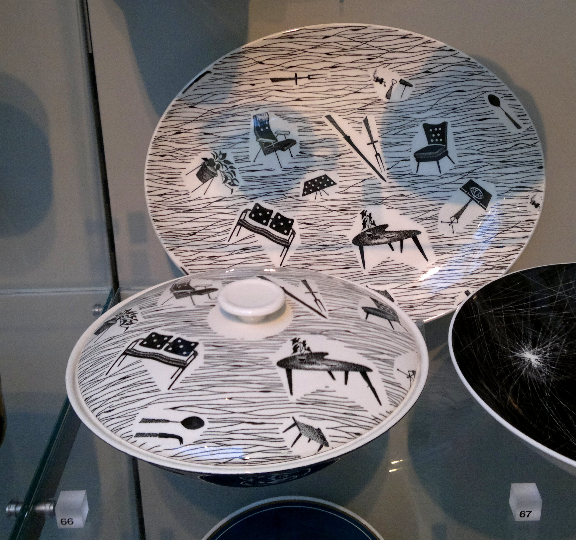 Homemaker tureen and plate, Ridgway Potteries, Staffordshire, 1957, Victoria & Albert Museum.